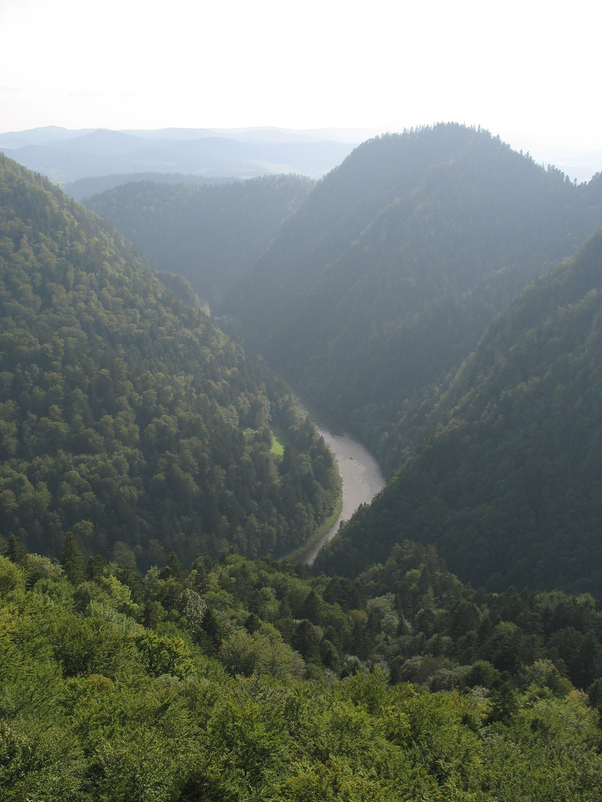 Dunajec River Gorge from the summit Sokolica, Pieniny.